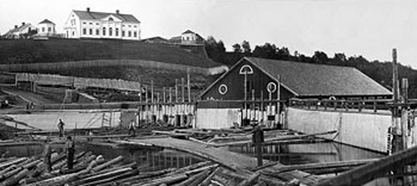 Baggböle sawmill around 1880, with the corps de logis in the background.